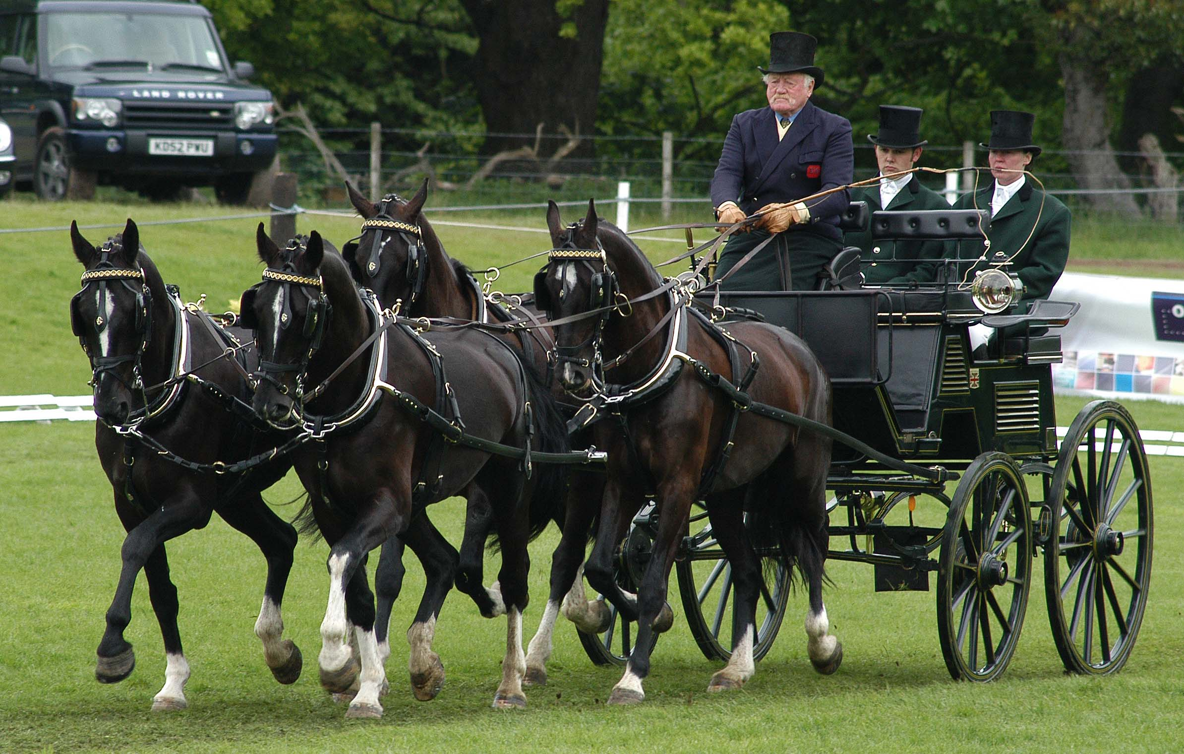 George Bowman (GBR) during the Dressage phase of the Hopetoun National Horse Driving Trials (Edinburgh, Scotland) in May 2005